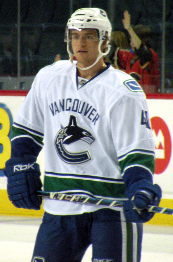 Vancouver Canucks forward Michael Grabner prior to a National Hockey League game against the Calgary Flames in Calgary.